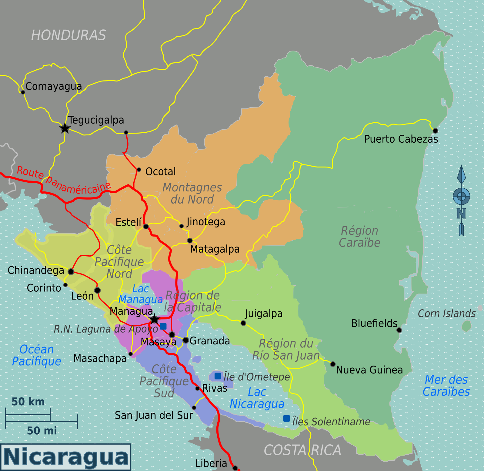 Nicaragua regions map for use on Wikivoyage, French version